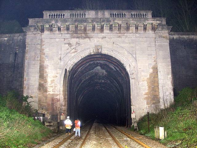 The west entrance to Box Tunnel.